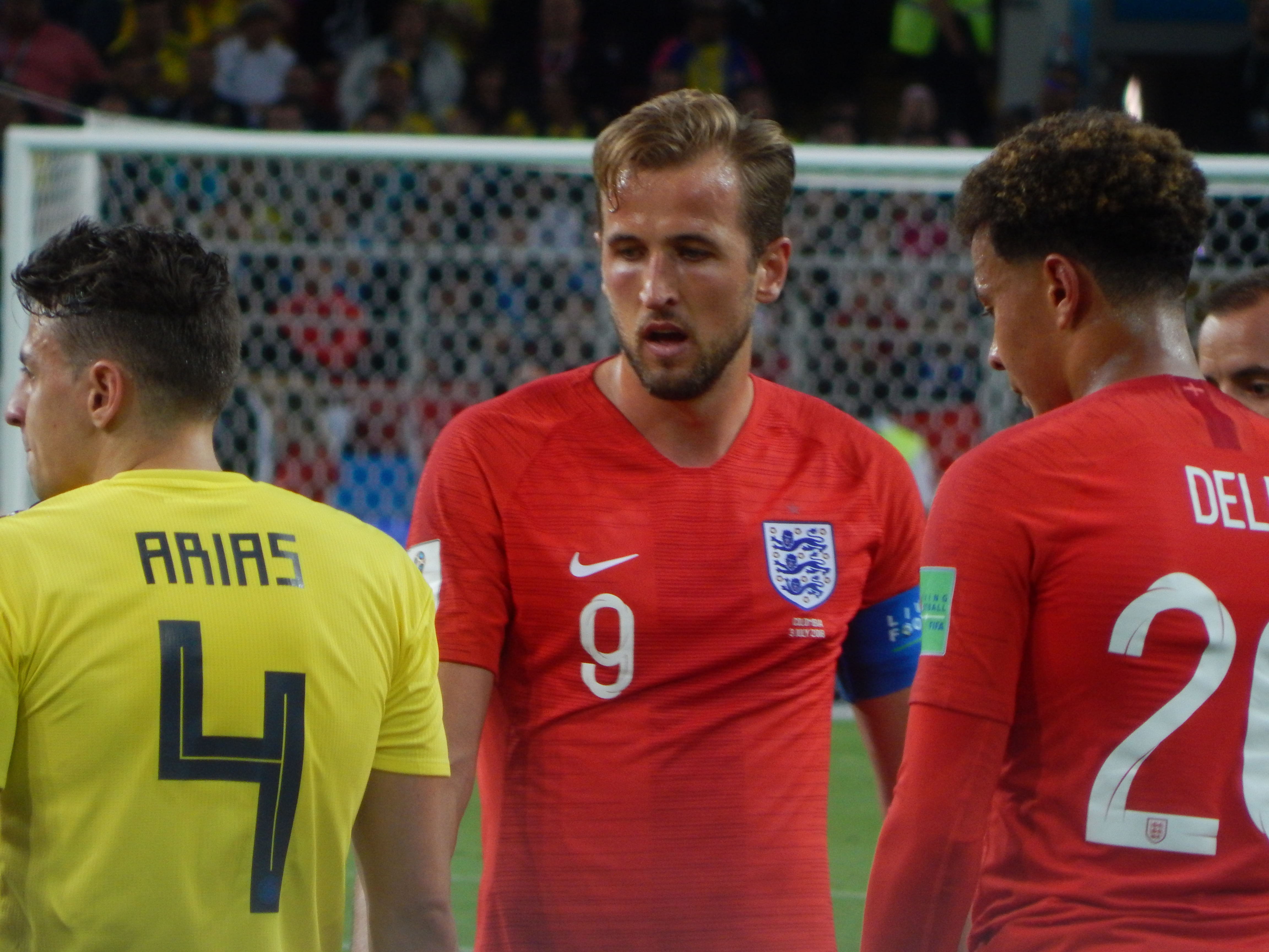 FIFA World Cup 2018, Round of 16, Colombia vs. England